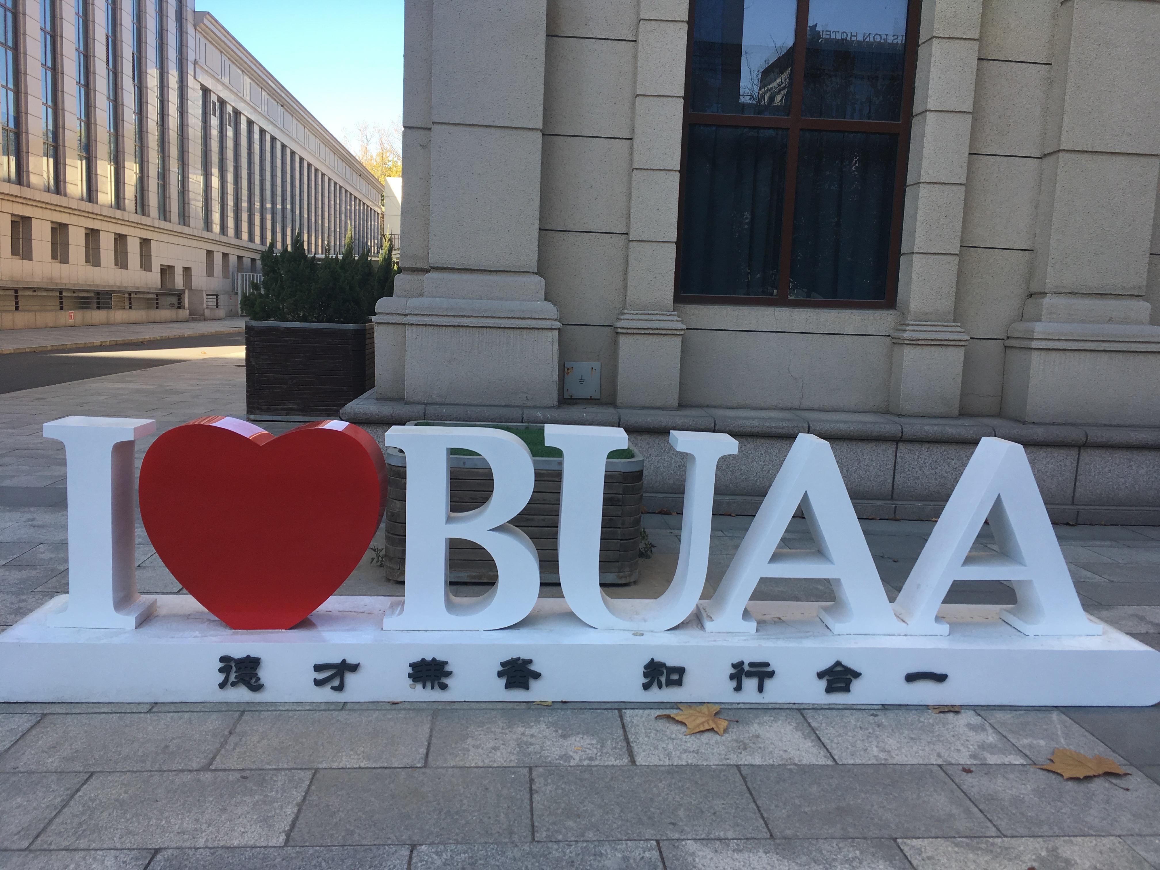 Seen on Beihang University campus in 2018